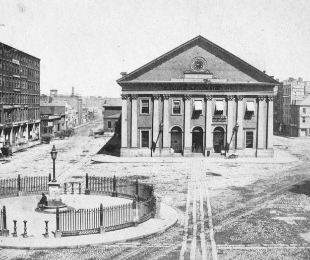 The B&M terminal in Haymarket Square in the 19th century